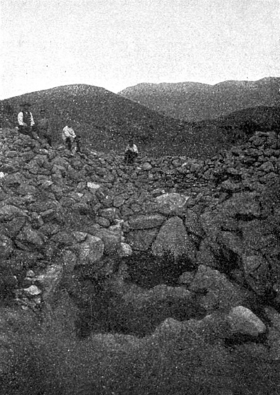 Uncovered kurgan near Khojaly.